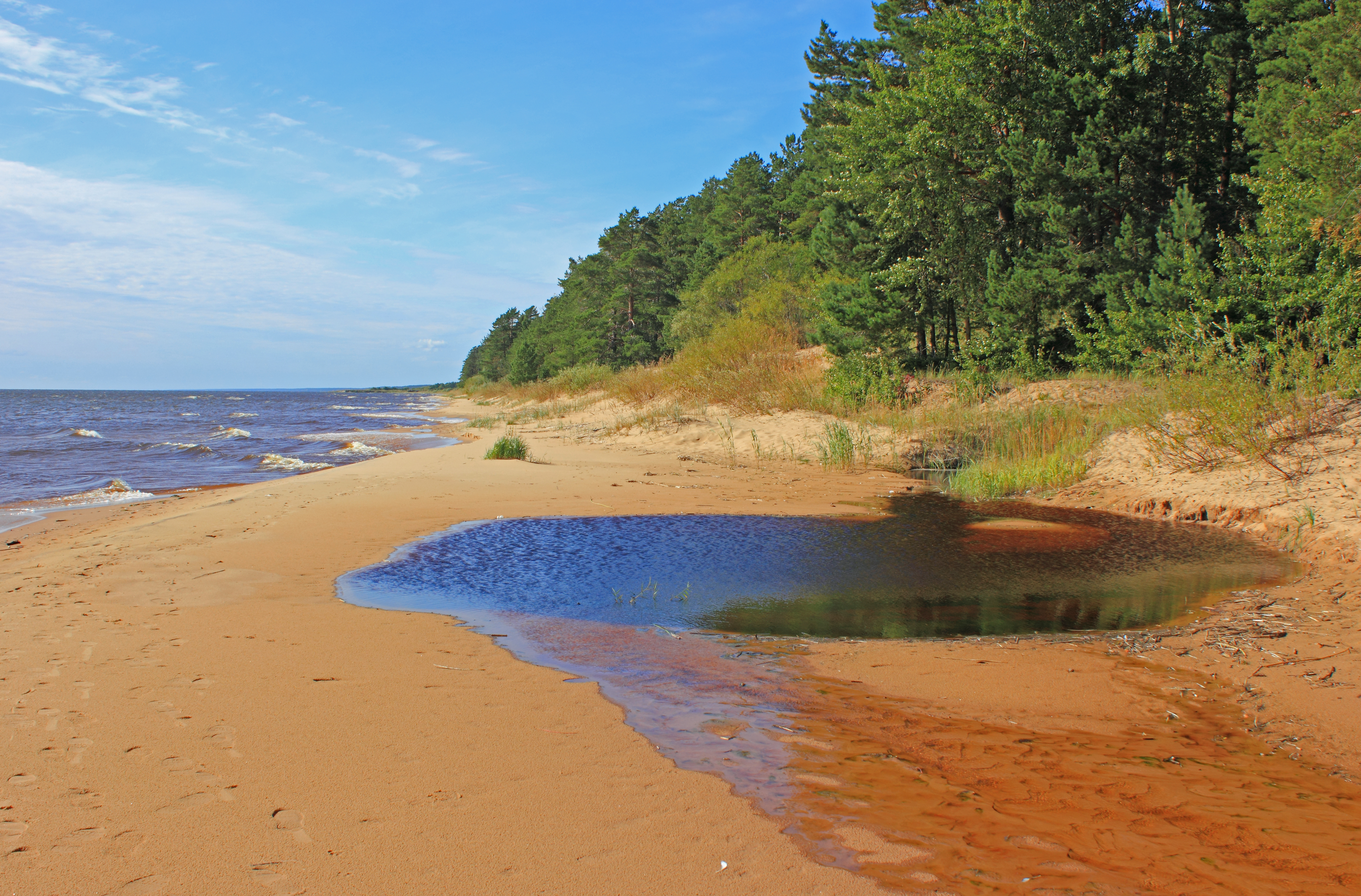 Beach on the northern coast of Peipsi Lake. Alajoe Parish, Ida-Virumaa, Estonia.